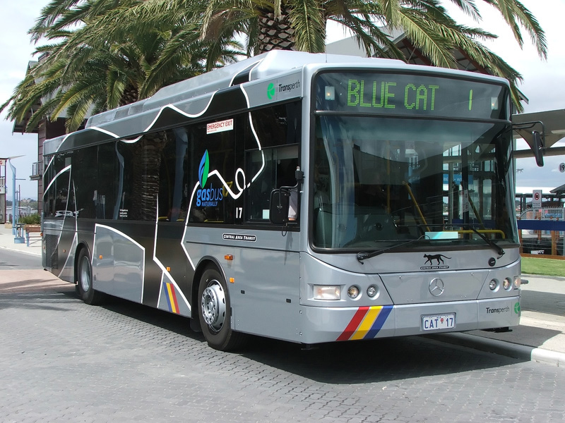 New Volgren "CR228L" bodied Mercedes-Benz OC500LE CNG-powered Perth CAT 17 bus.